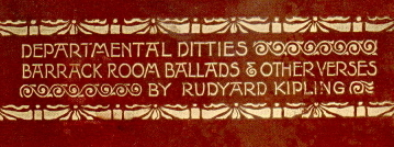 Low-resolution (40% of original) scanned image of the gilt title on cover of the 1890 first American edition of "Barrack Room Ballads and Other Verses," by Rudyard Kipling, published by United States Book Company, New York (successors to John W. Lovell Company). Illustrator unknown. Since the author died less than 100 years ago, the image may still be under copyright. Sanjay Tiwari 02:36, 27 September 2006 (UTC)